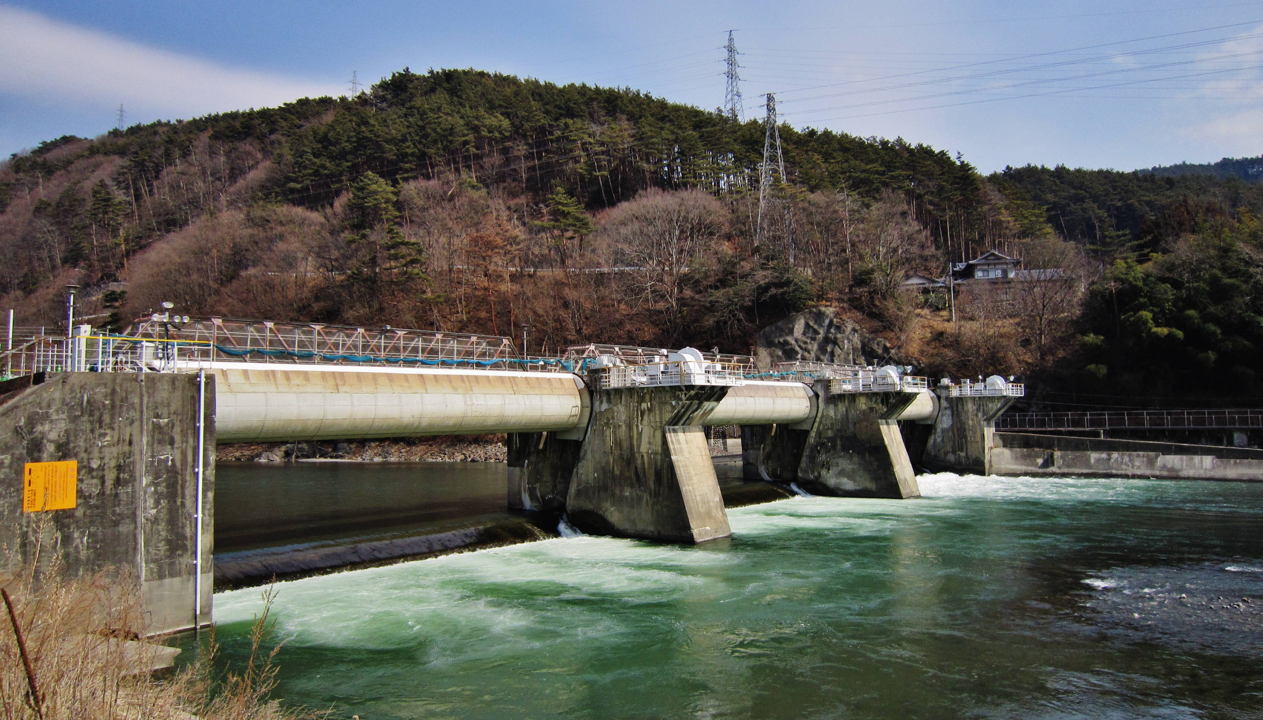 Ōkubo Dam.